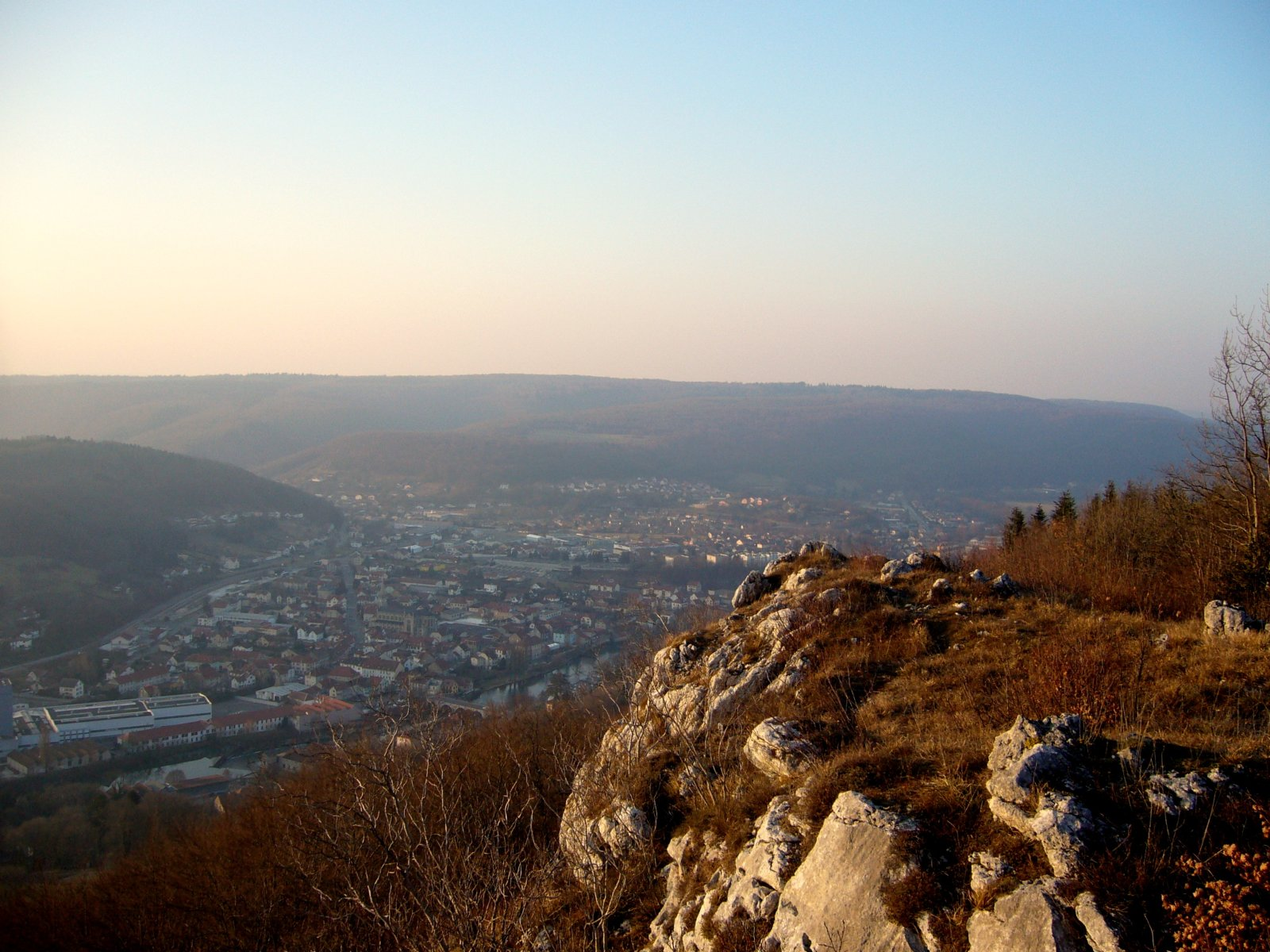 The "Site des Roches", near Pont-de-Roide, France